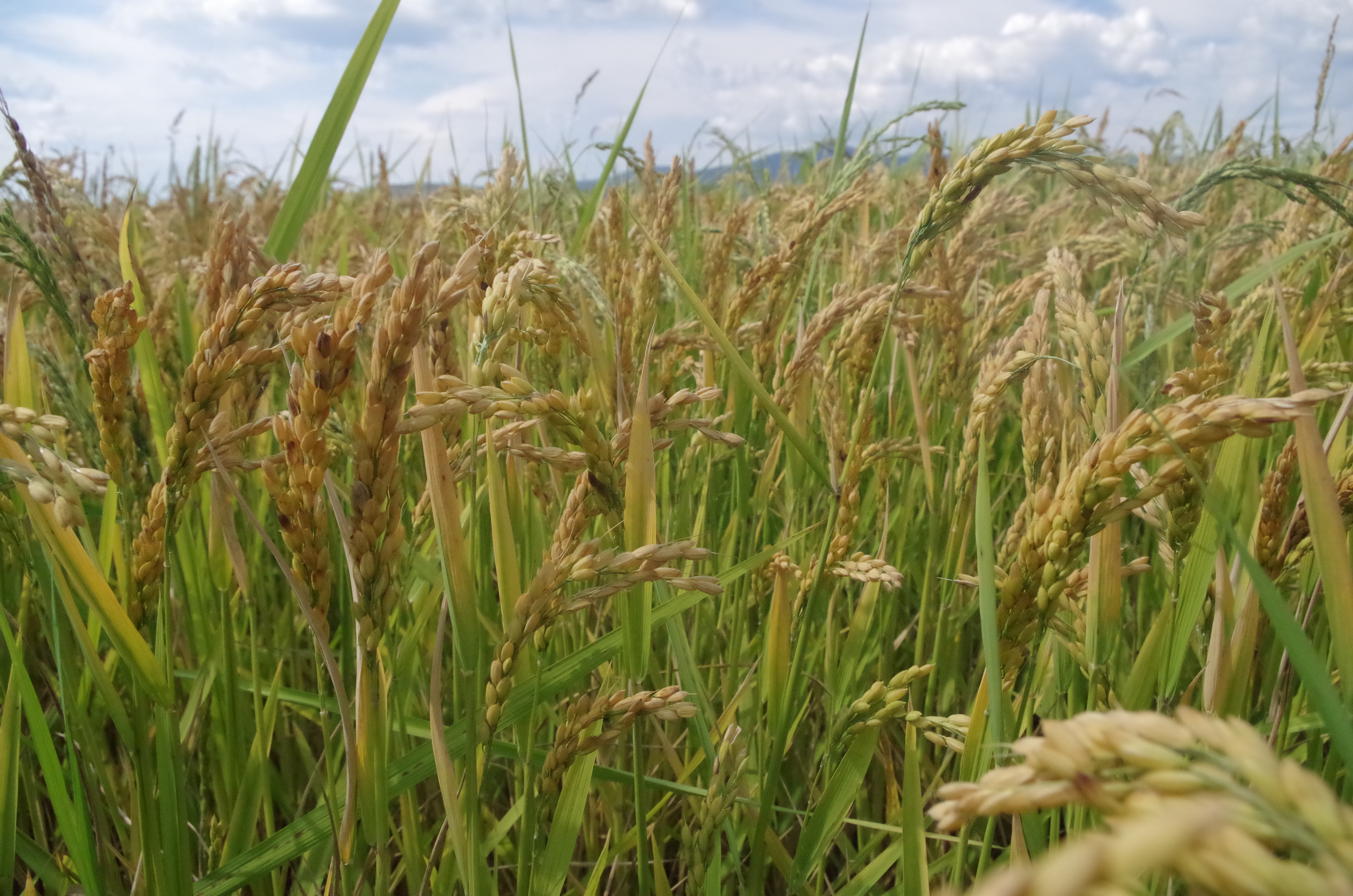 Rice fields in the region Kočani, Macedonia